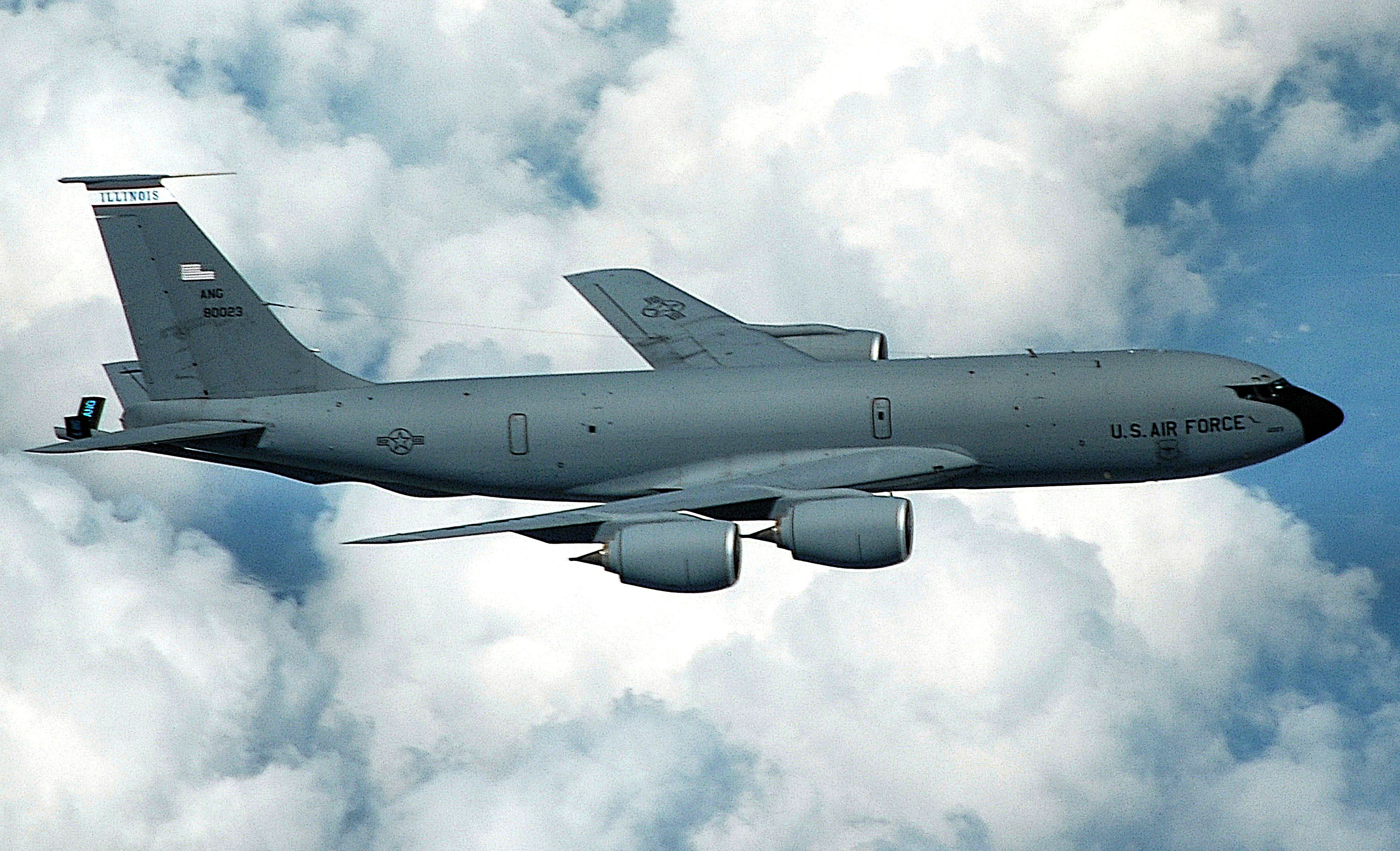 A KC-135R Stratotanker from the 126th Air Refueling Wing returns home after performing an inflight aerial refueling mission. The Illinois Air National Guard Wing constantly trains in its mission to maintain a high state of readiness. (National Guard photo by Master Sgt. Ken Stephens)